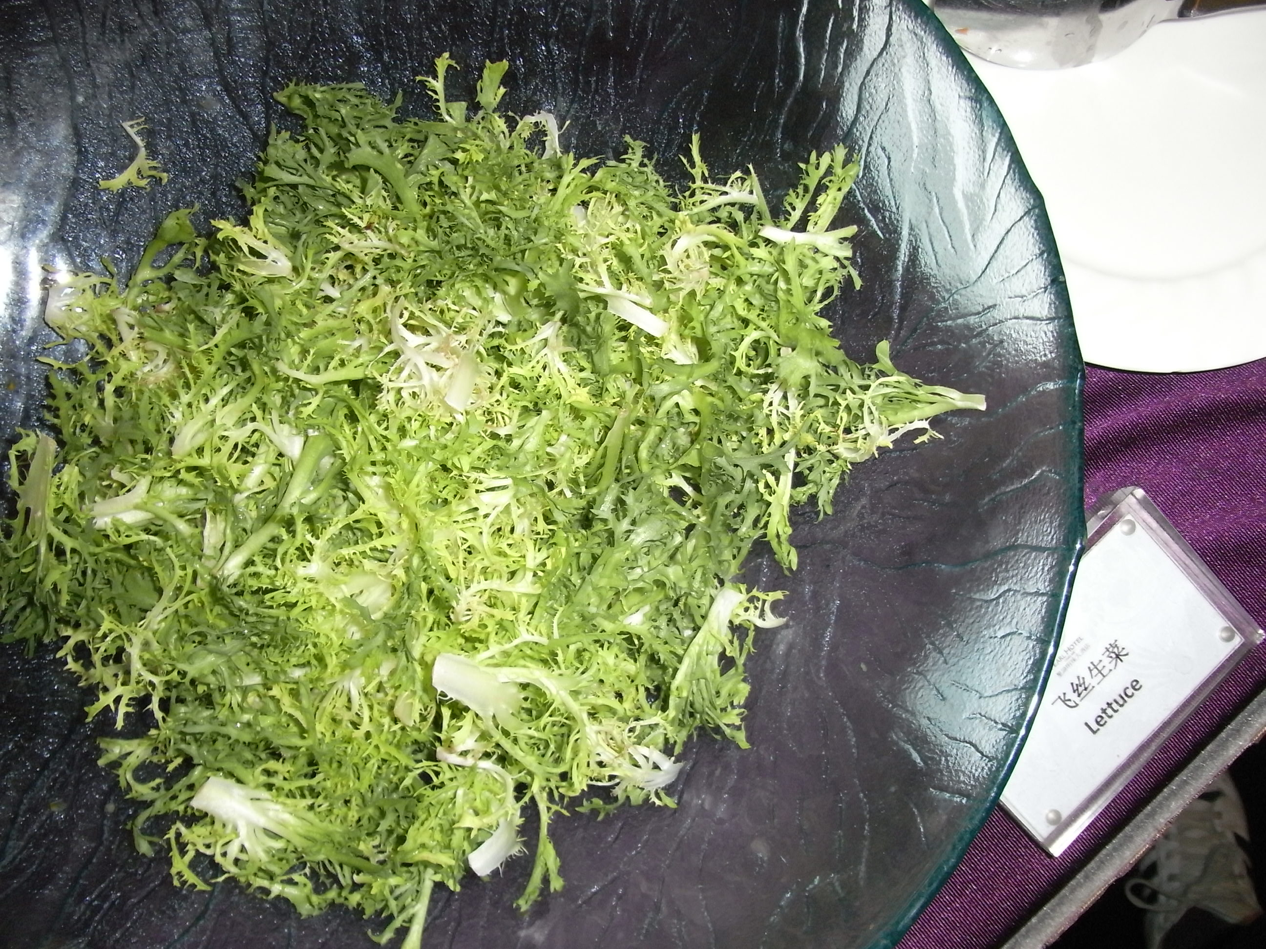 廣東省 肇慶市 端州區 四路 星湖明珠大酒店, Guangdong Starlake Pearl Hotel, Duanzhou, Zhaoqing, Guangdong, China